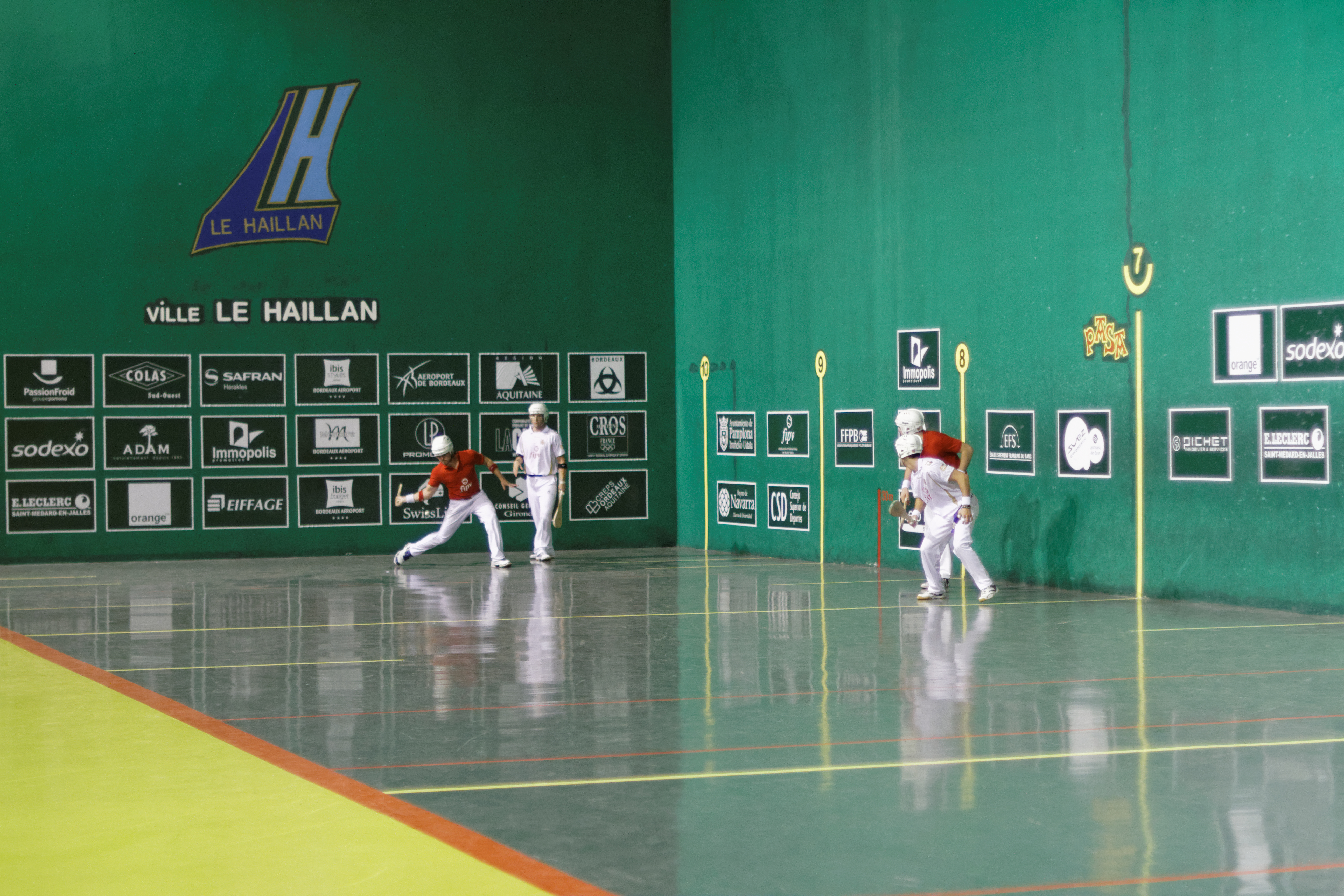 2013 Basque Pelota World Cup, 27th October - 2 November 2013, Le Haillan, France. Paleta Cuero. France (Thomas Iris - Sylvain Brefel) vs Spain (Ruben Ayarra - Emiliano Skufca).